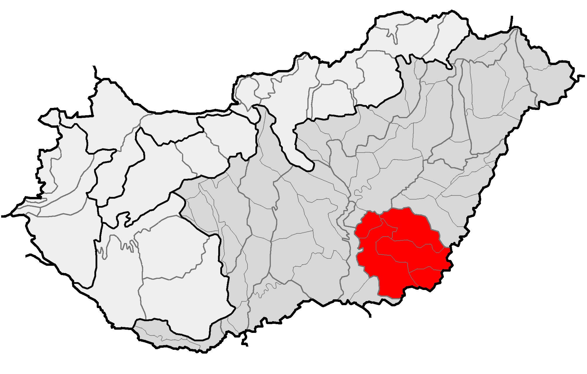 Location of geographical mesoregion of Körös–Maros_köze (red) and macroregion of Alföld (gray) within subdivisions of Hungary.